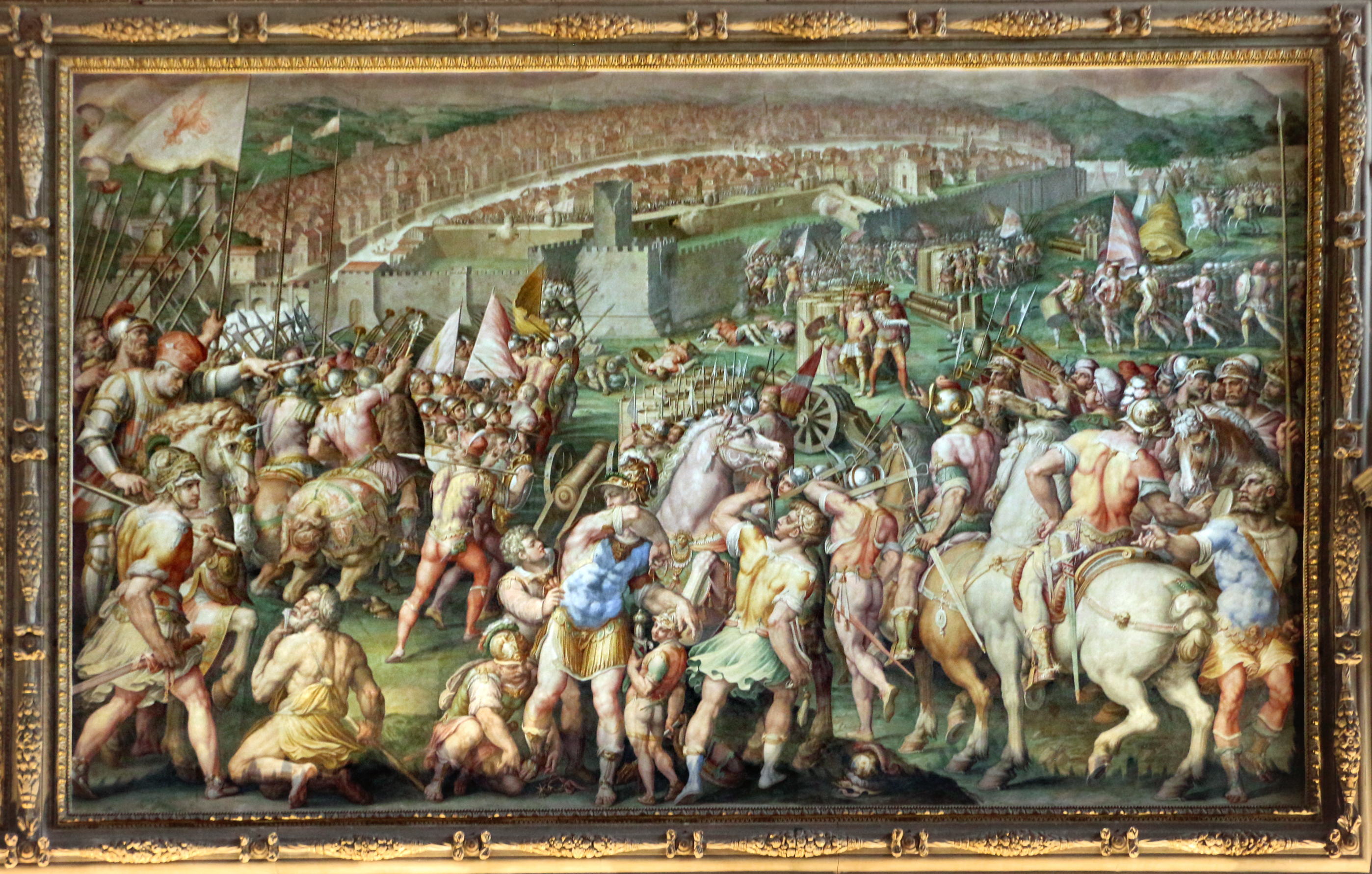 Salone dei Cinquecento - Vasari's paintings